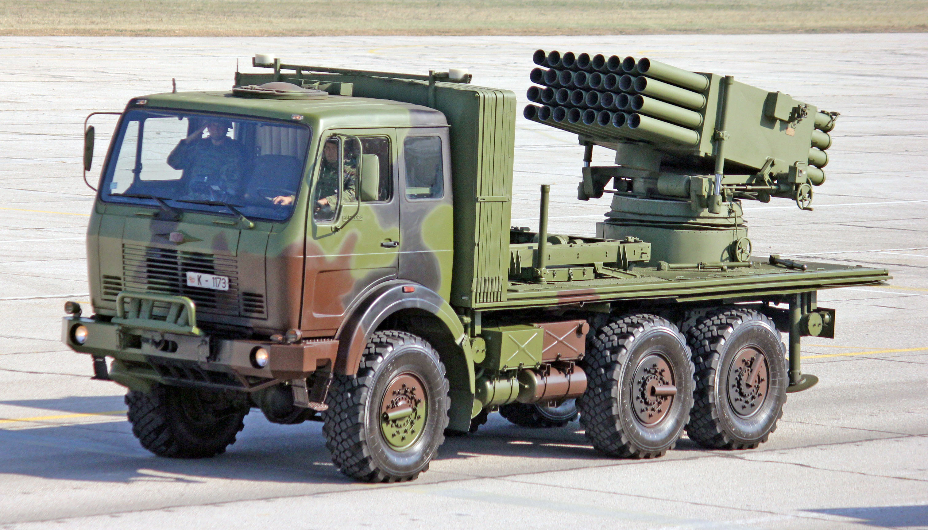 Serbian army modernized М-77 Oganj MLRS on Sloboda 2019 military parade and exercise at "Colonel-pilot Milenko Pavlović" military airport.